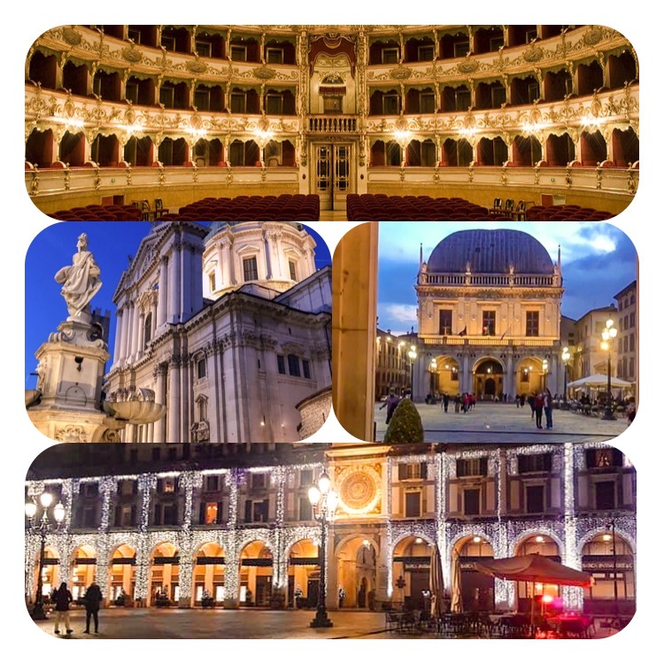 Places of old town in Brescia